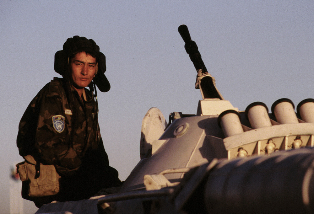 A Kazakstani soldier sits atop his troop carrier vehicle.